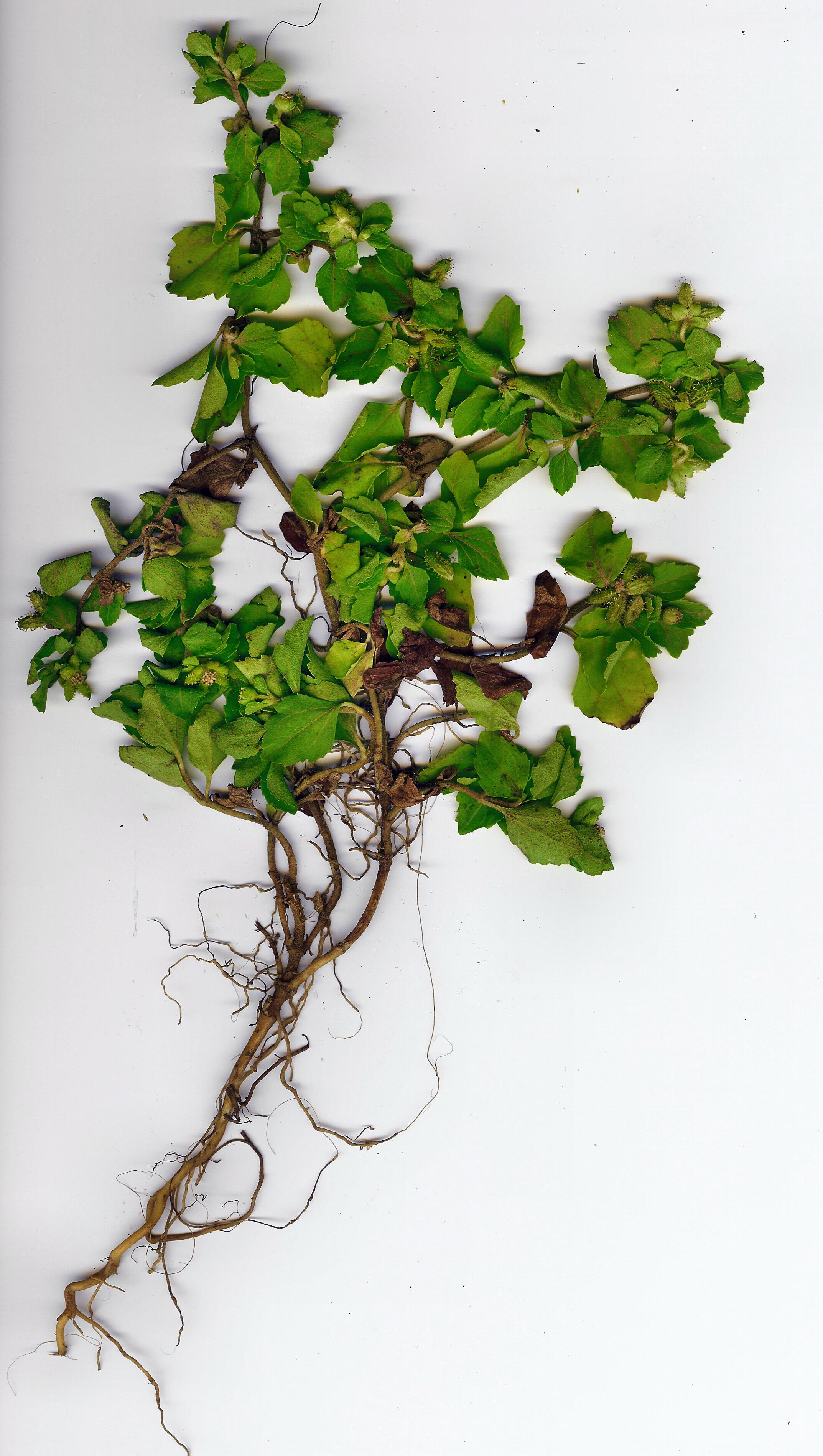 Spiny-bur (Acanthospermum australe) : plant